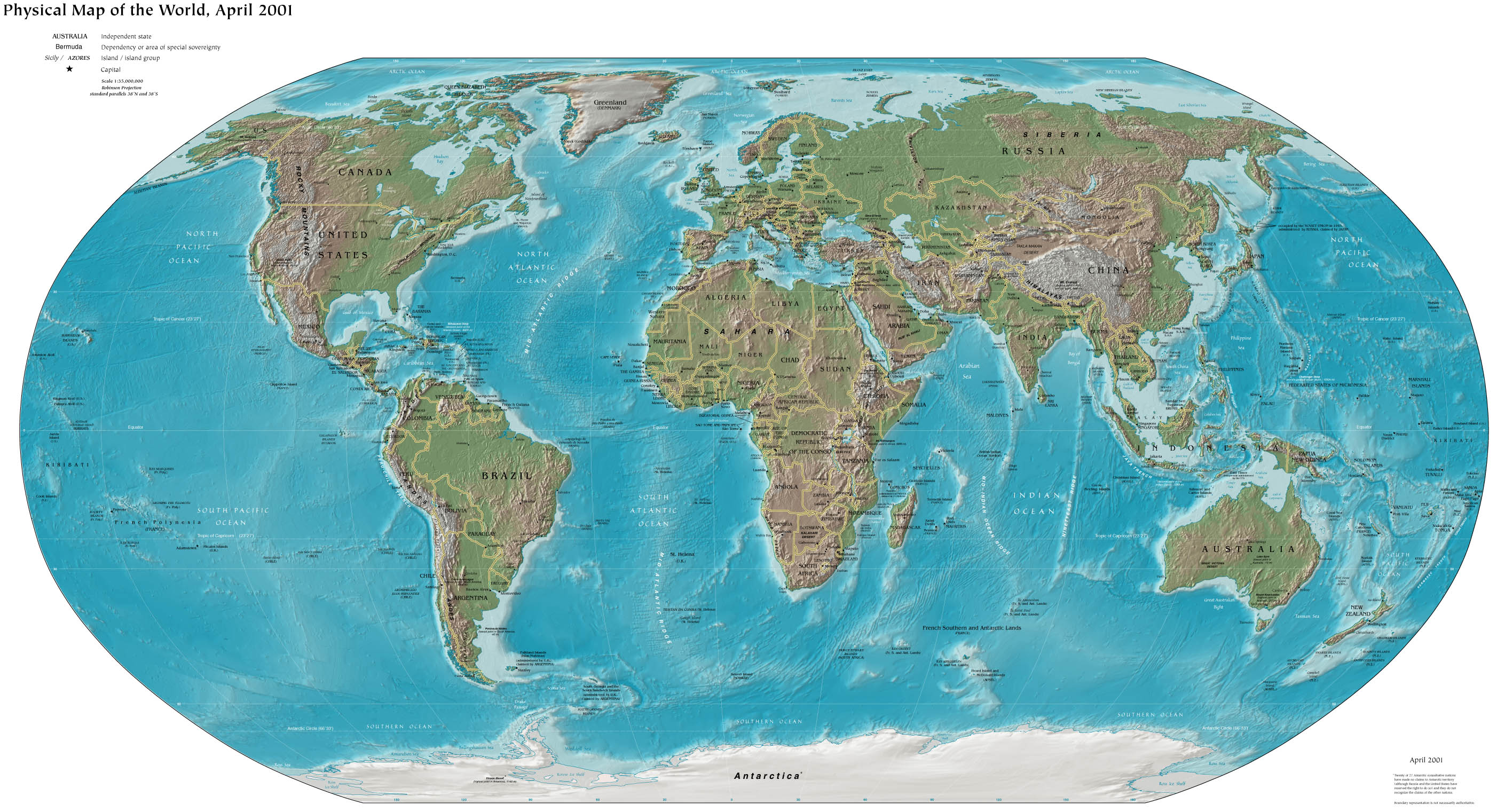 Physical Map of the World, April 2001